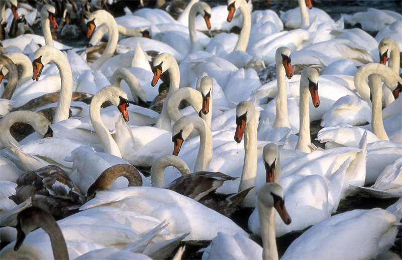 For over 600 years this colony of friendly mute swans has made its home at Abbotsbury